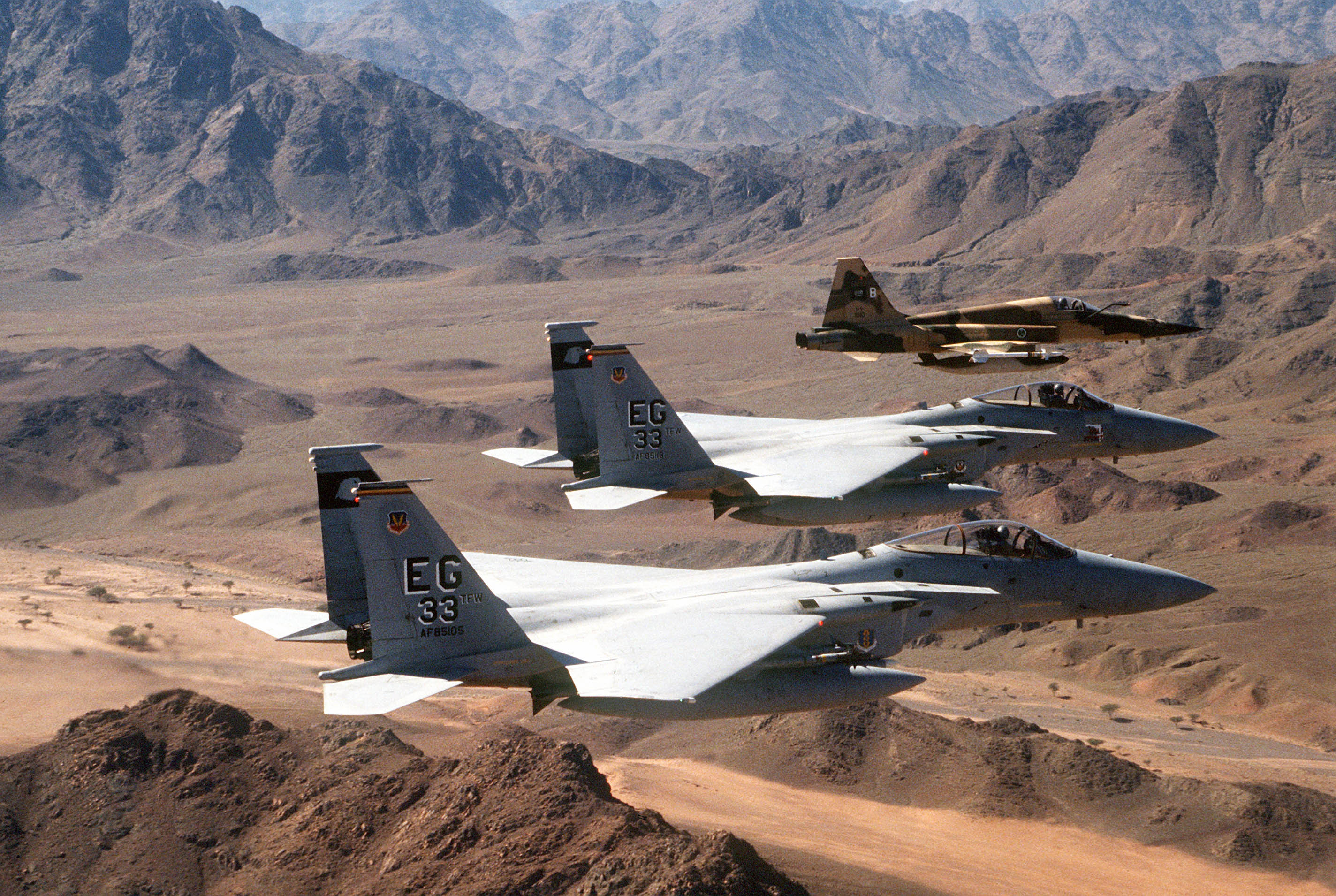 An air-to-air view of two U.S. Air Force F-15C (denoted by the conformal fuel tanks and the aircraft tail numbers showing year 85 and serial number 105 and 115) Eagles of the 33rd Tactical Fighter Wing from Eglin Air Force Base, Fla., and a Royal Saudi Air Force F-5E Tiger II fighter aircraft during a mission in support of Operation Desert Storm. The aircraft are armed with AIM-9 Sidewinder air-to-air missiles.